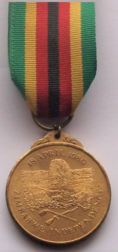 Independence medal awarded by the new Republic of Zimbabwe, 1980